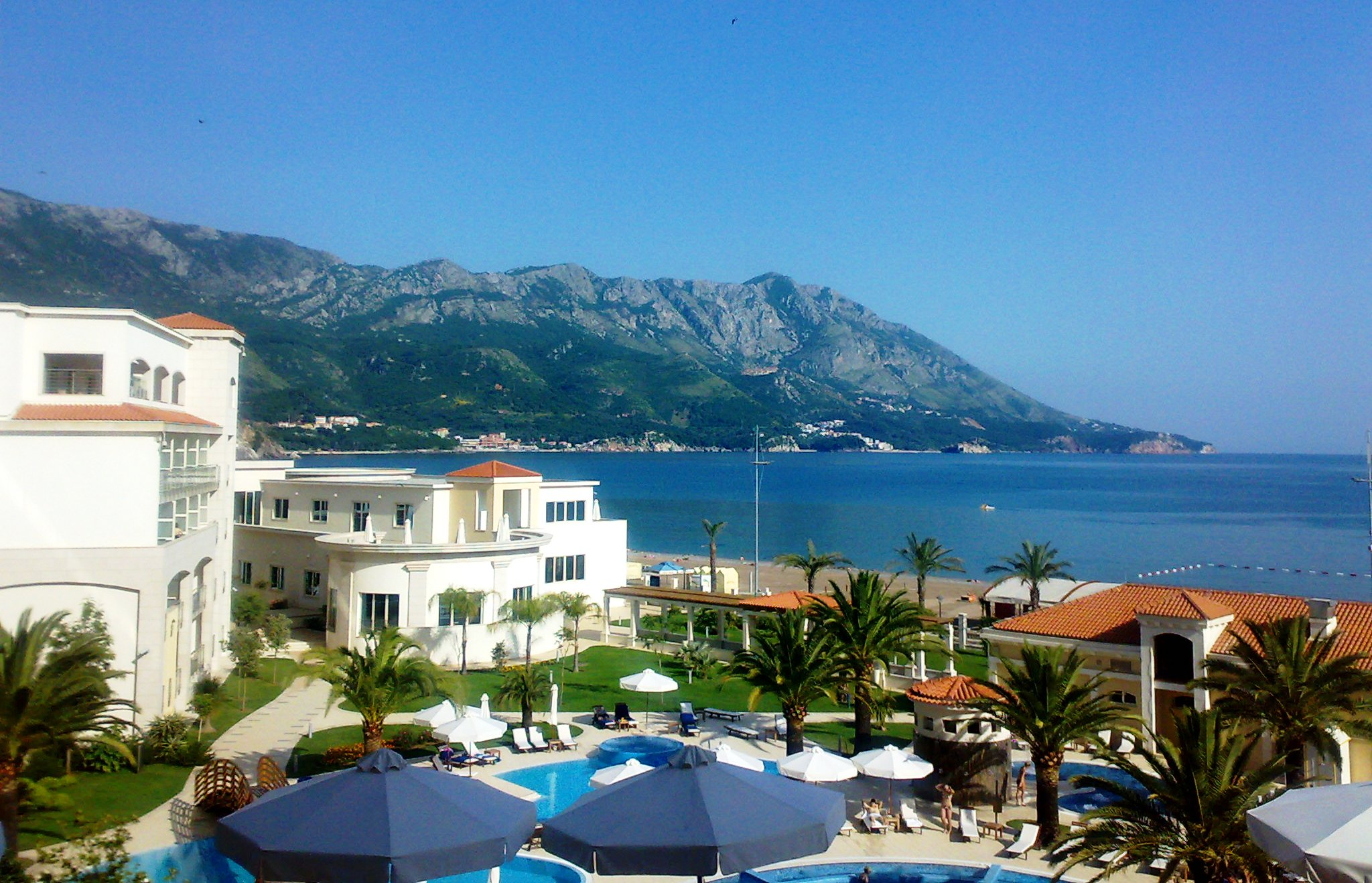 Image from southern Montenegro. Hotel Splendid in Becici, a suburb of Budva.